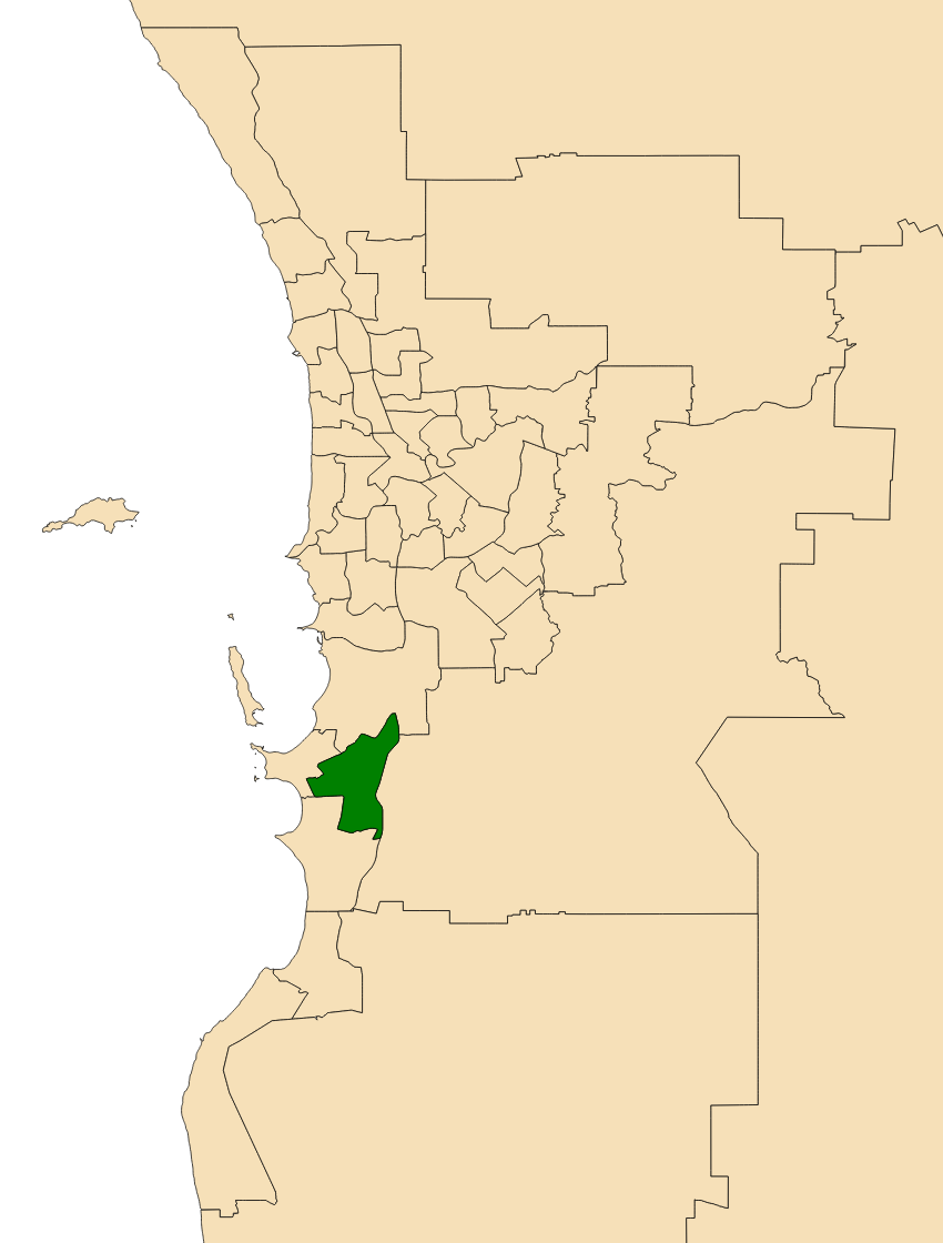 Location of the electoral district of Baldivis in the Perth metropolitan area, Western Australia as of the 2017 WA state election.